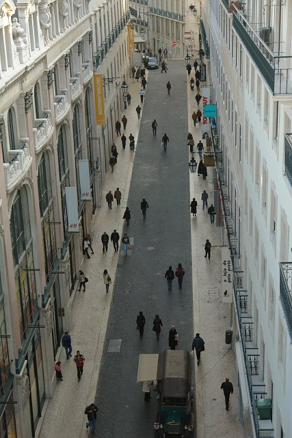 Rua do Carmo, Lisbon (Street). Photographer: Osvaldo Gago